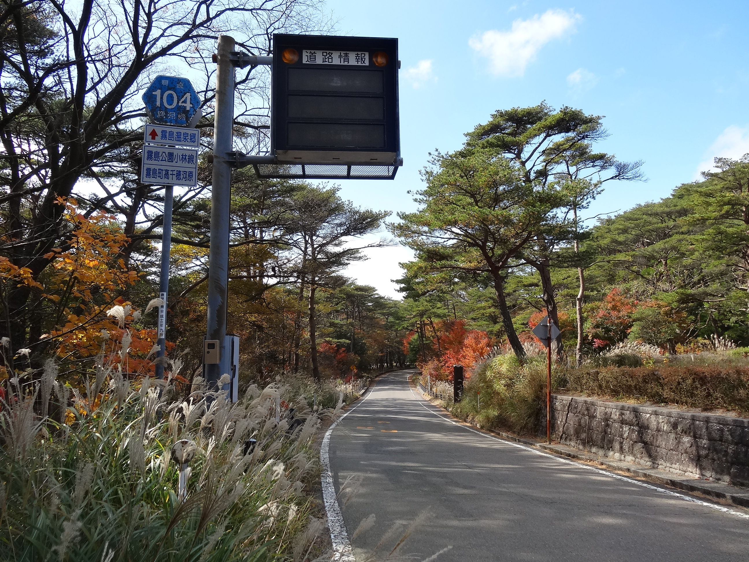 Kagoshima Prefectural Road No.104 Kirishima Park - Kobayashi Line (Around the "Takachiho-Gawara", Kirishima City, Kagoshima, Japan)